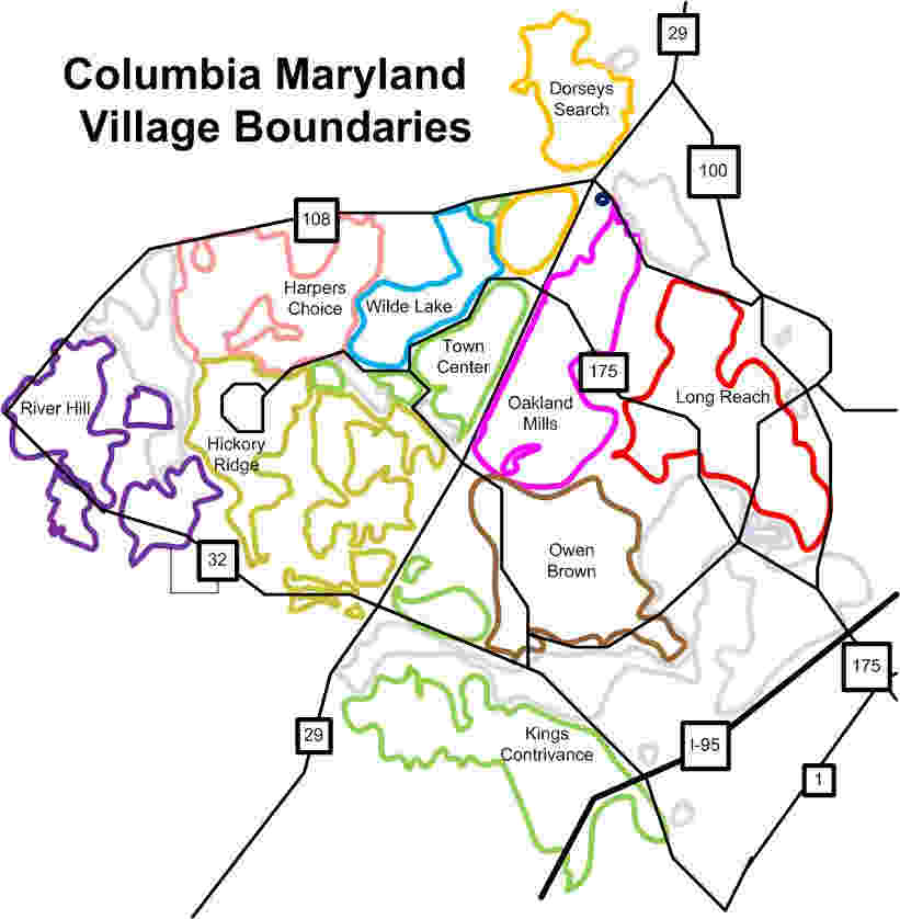 Columbia Maryland Villages based off of 2013 Howard County GIS